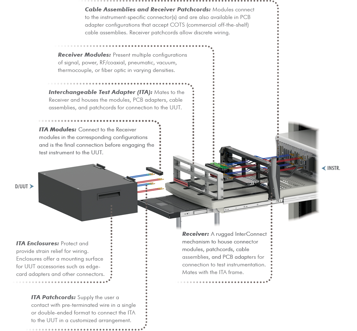 Exploded view of a mass interconnect system with call out explanation.